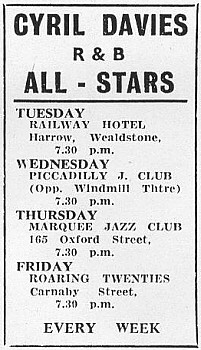 A newspaper clipping advertising the Cyril Davies R&B All-Stars circa 1963.